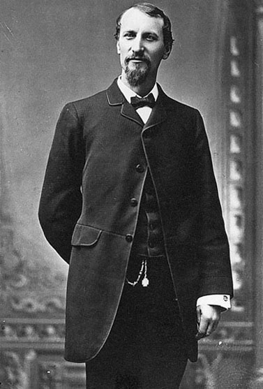 A portrait of Frederick Henry Harvey